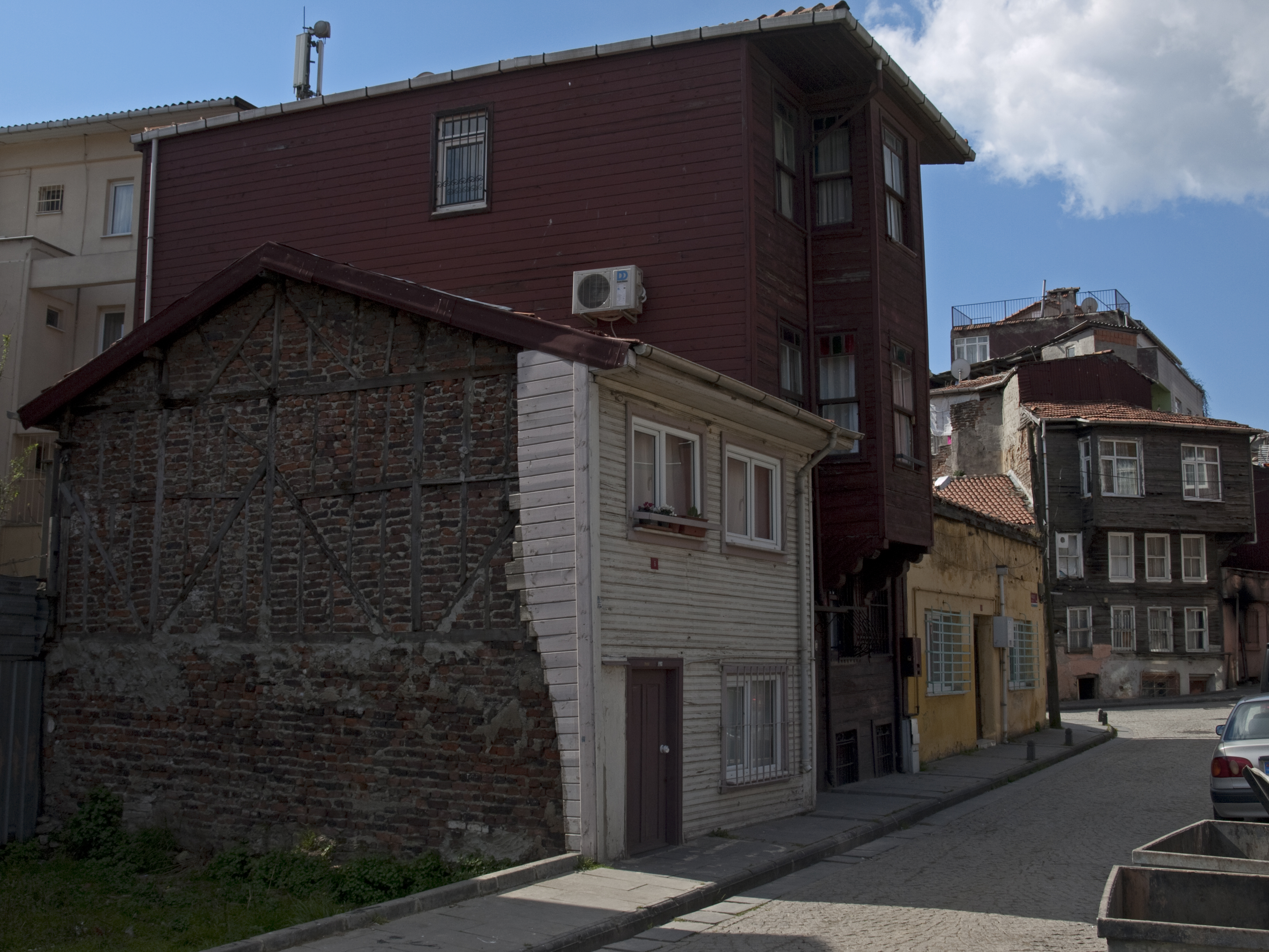 Zeyrek, old buildings on Ibadethane Sk